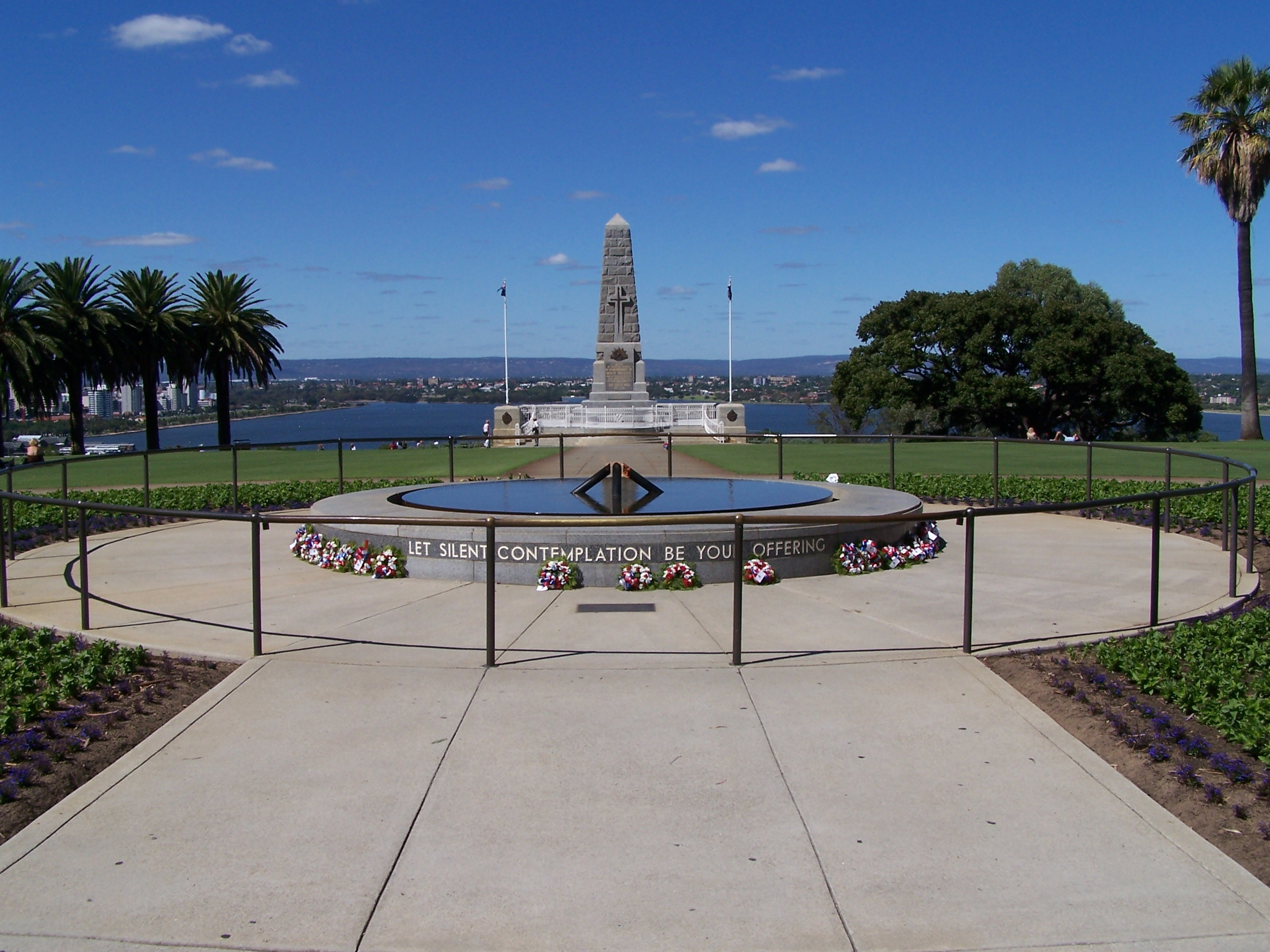 Kings Park War Memorial.